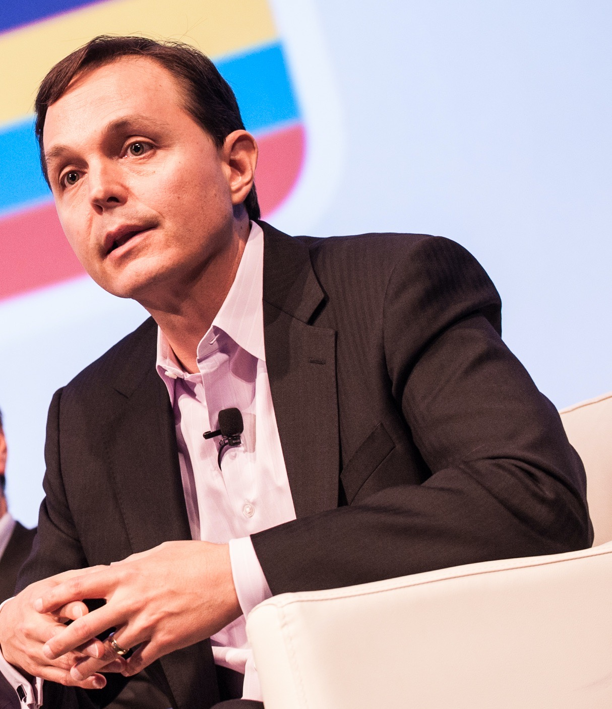 Dylan Taylor (executive) photo at Atlanta Conference on technology investing.